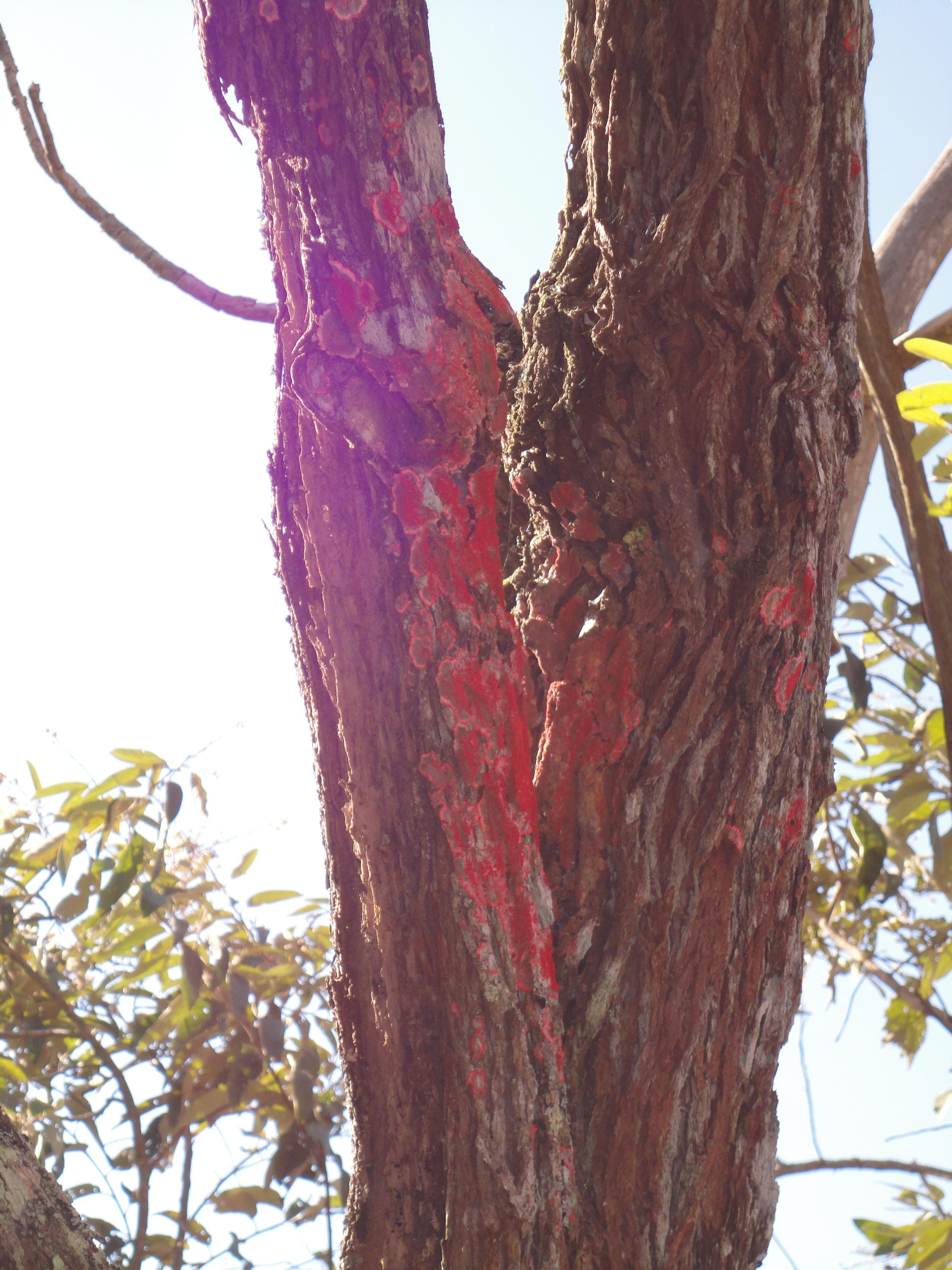 crustose lichen